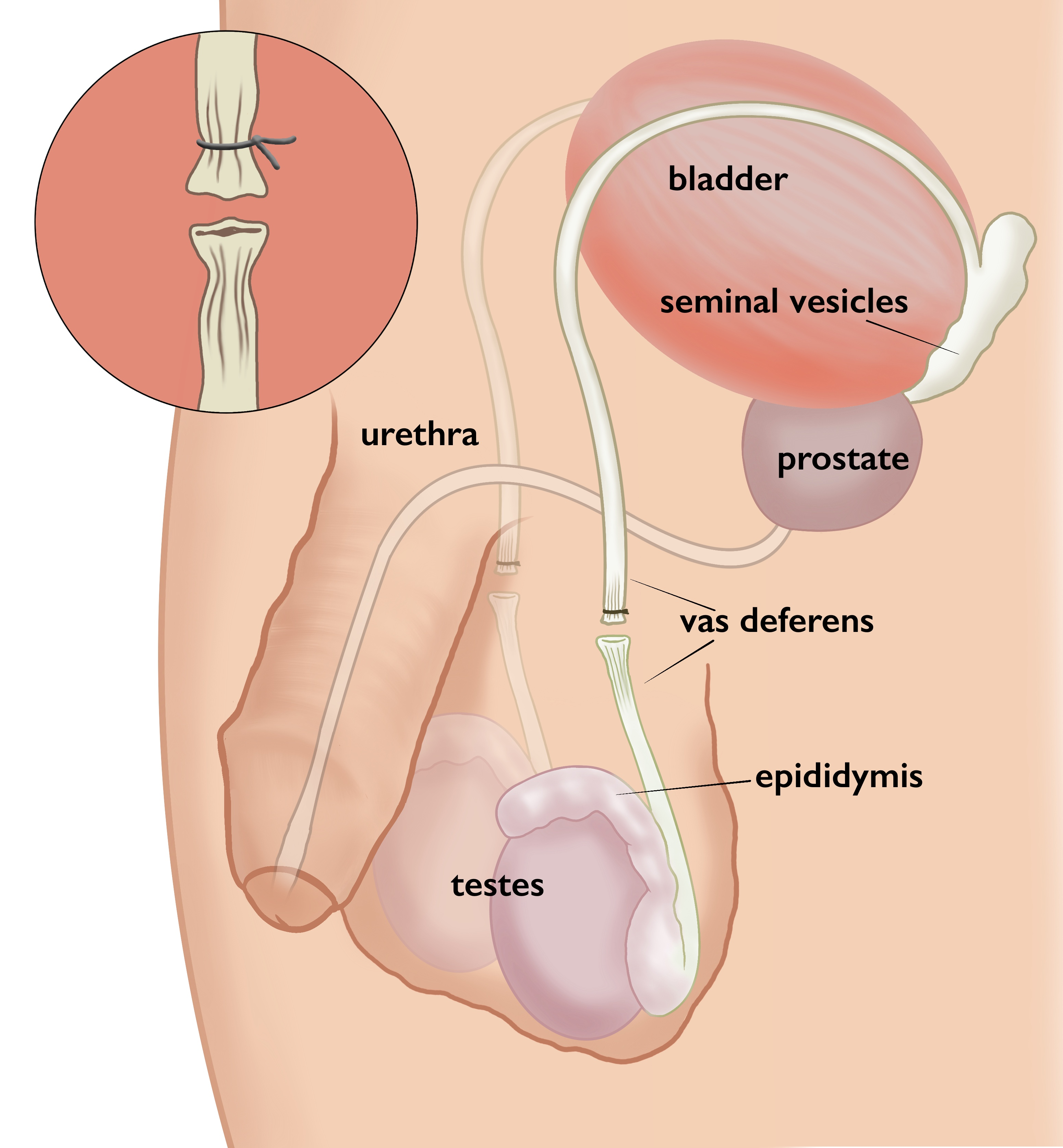 Illustration of an open vasectomy with structures labeled.